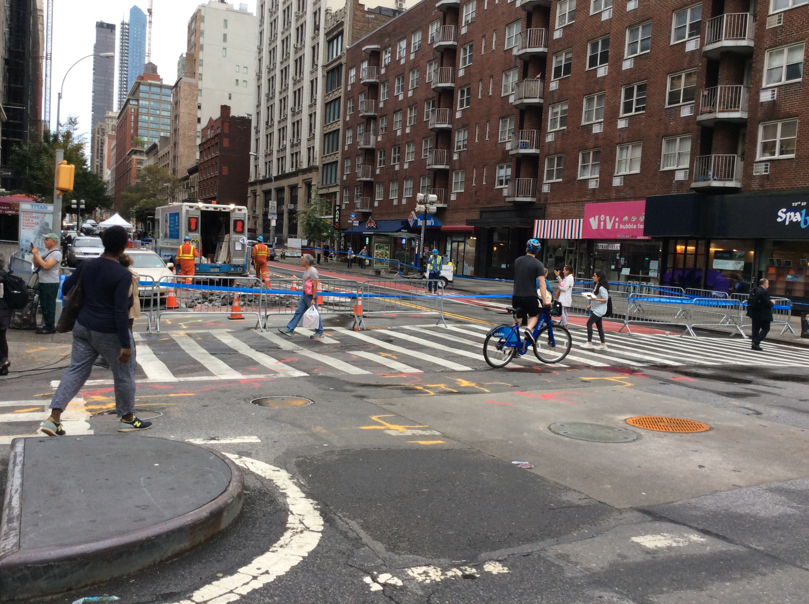 The investigation of the 2016 Manhattan bombing, as seen from 23rd Street and Seventh Avenue